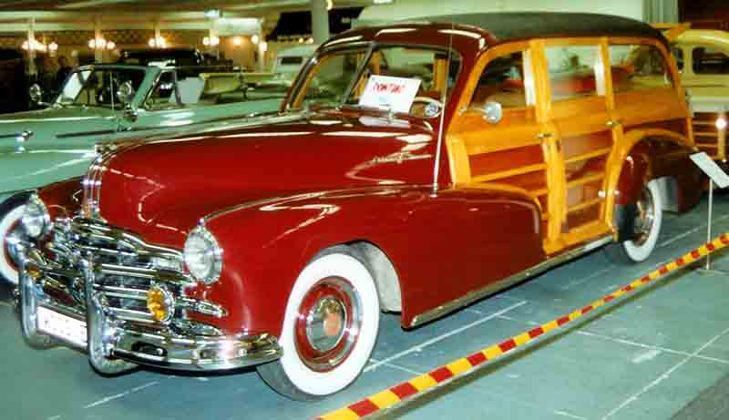 Pontiac Station Wagon 1948